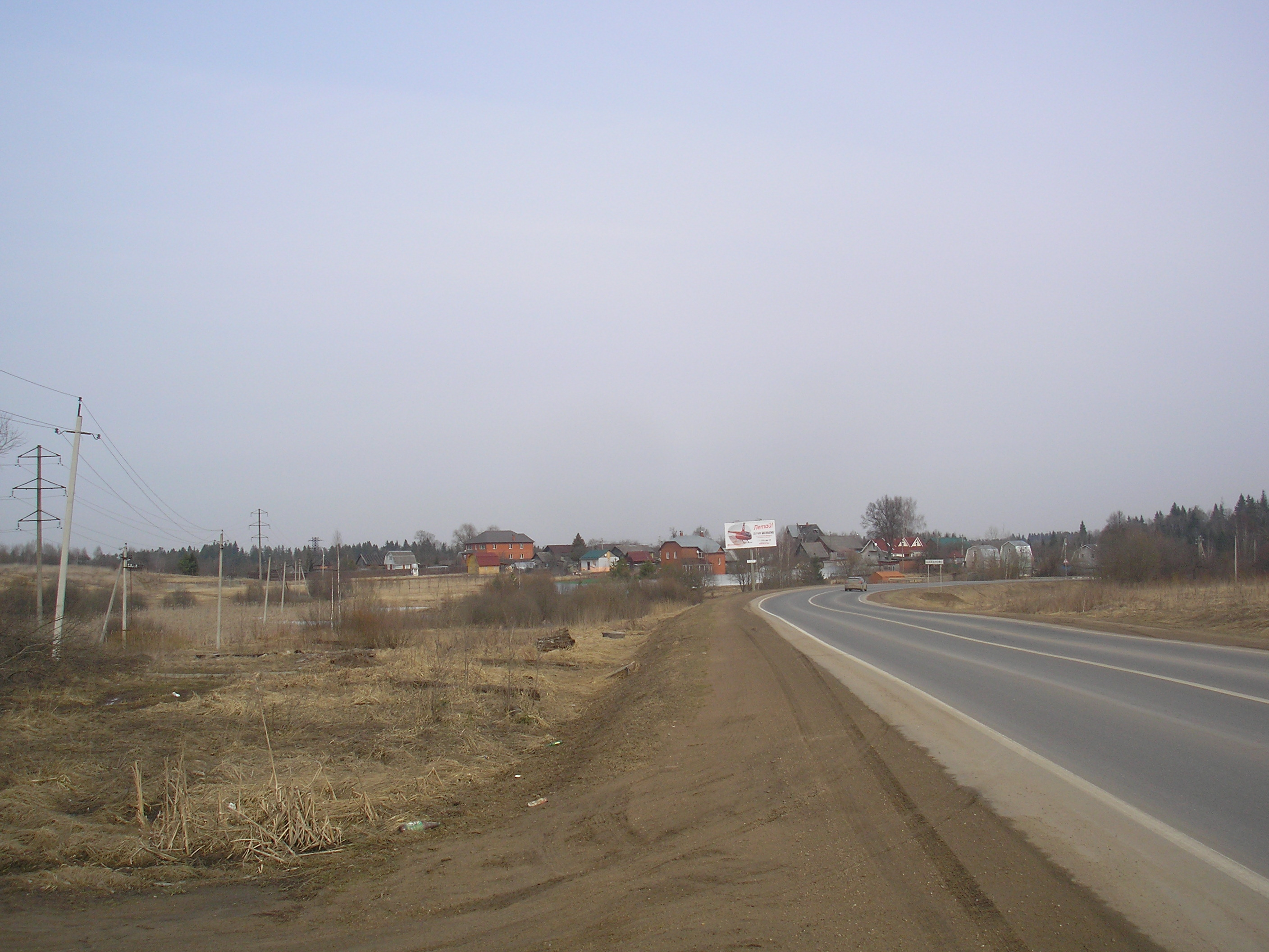 Village Shebanovo, Istra district, Moscow region.